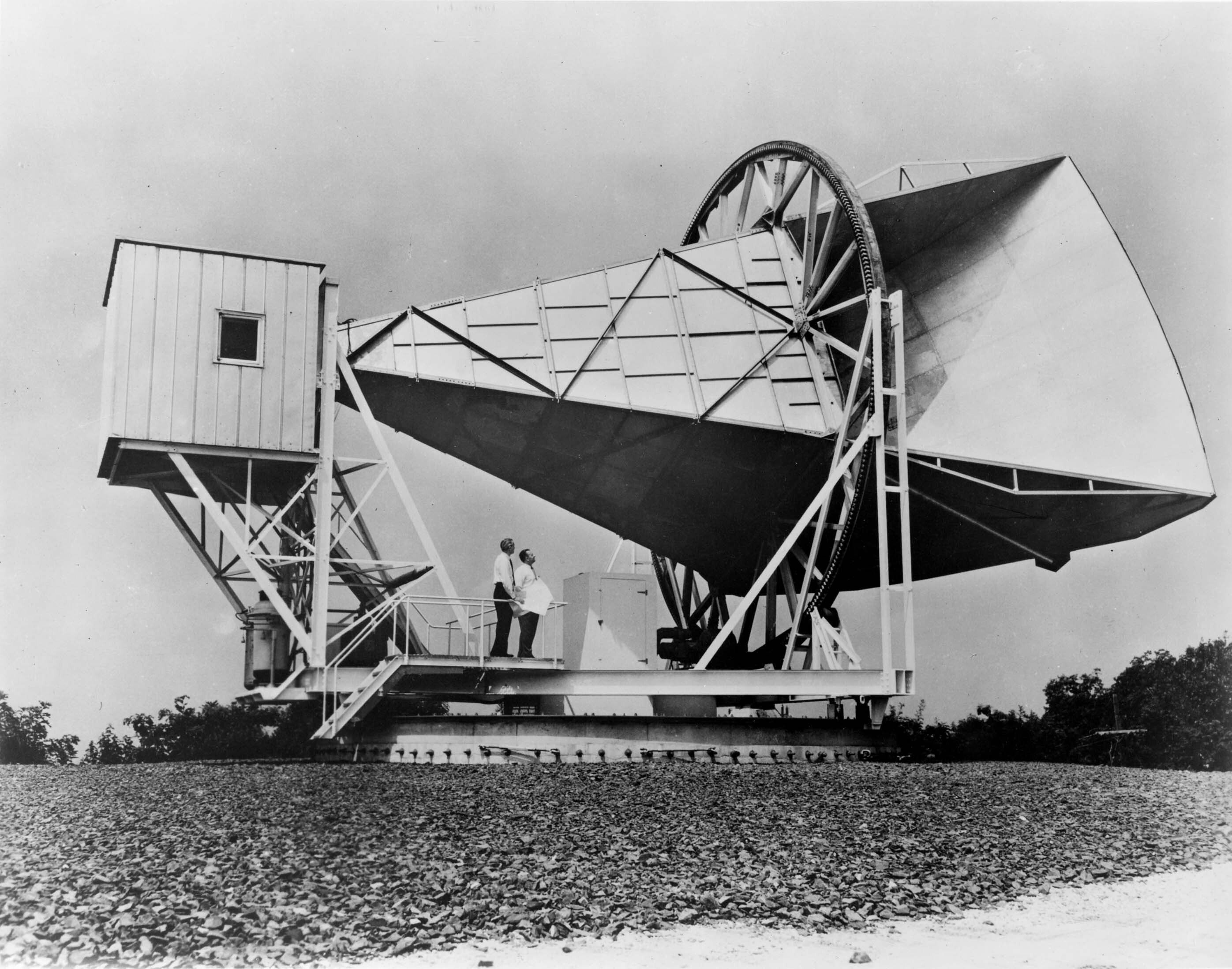 The 15 meter Holmdel horn antenna at Bell Telephone Laboratories in Holmdel, New Jersey was built in 1959 for pioneering work in communication satellites for the NASA ECHO I. The antenna was 50 feet in length and the entire structure weighed about 18 tons. It was composed of aluminum with a steel base. It was used to detect radio waves that bounced off Project ECHO balloon satellites. The horn was later modified to work with the Telstar Communication Satellite frequencies as a receiver for broadcast signals from the satellite. In 1964, radio astronomers Robert Wilson and Arno Penzias discovered the cosmic microwave background radiation with it, for which they were awarded the 1978 Nobel prize in physics. In 1990 the horn was dedicated to the National Park Service as a National Historic Landmark. This type of antenna is called a Hogg or horn-reflector antenna, invented by Albert Beck and Harald Friis in 1941 and further developed by D. C. Hogg at Bell Labs in 1961. It consists of a flaring metal horn with a reflector mounted in the mouth at a 45° angle, so the antenna receives radio waves at a 90° angle to the horn axis. The reflector is a segment of a parabolic reflector, so the antenna is equivalent to a parabolic antenna fed off-axis. This type of antenna has characteristics that make it a good radio telescope: it has very broad bandwidth, the aperture efficiency can be calculated accurately, and the horn shields the antenna from electrical noise coming from angles outside the beam axis, so it picks up little thermal ground noise.